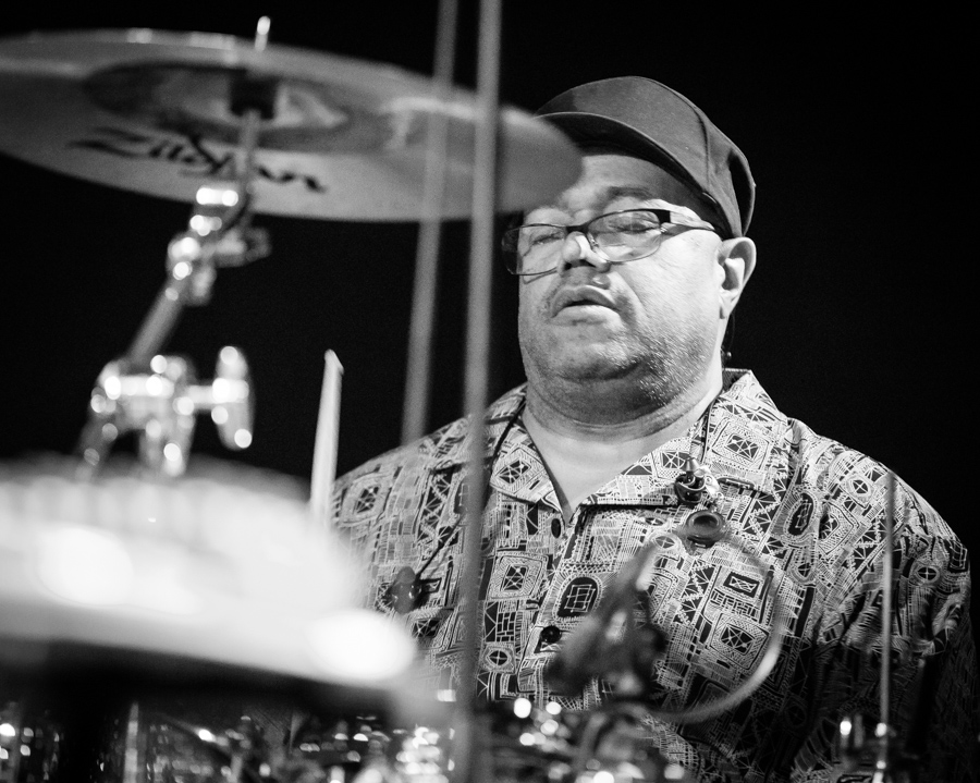 Dennis Chambers with John Scofield at the stage of Energimølla. The concert was part of Kongsberg Jazzfestival and took place on 06. July 2017. Lineup: John Scofield (guitar) Dennis Chambers (drums) Avi Bortnick (guitar) Andy Hess (bass guitar)